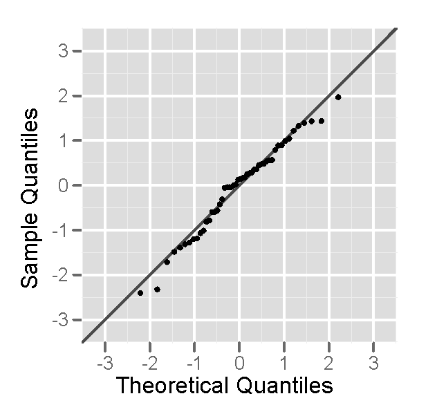 Example of a normal probability plot